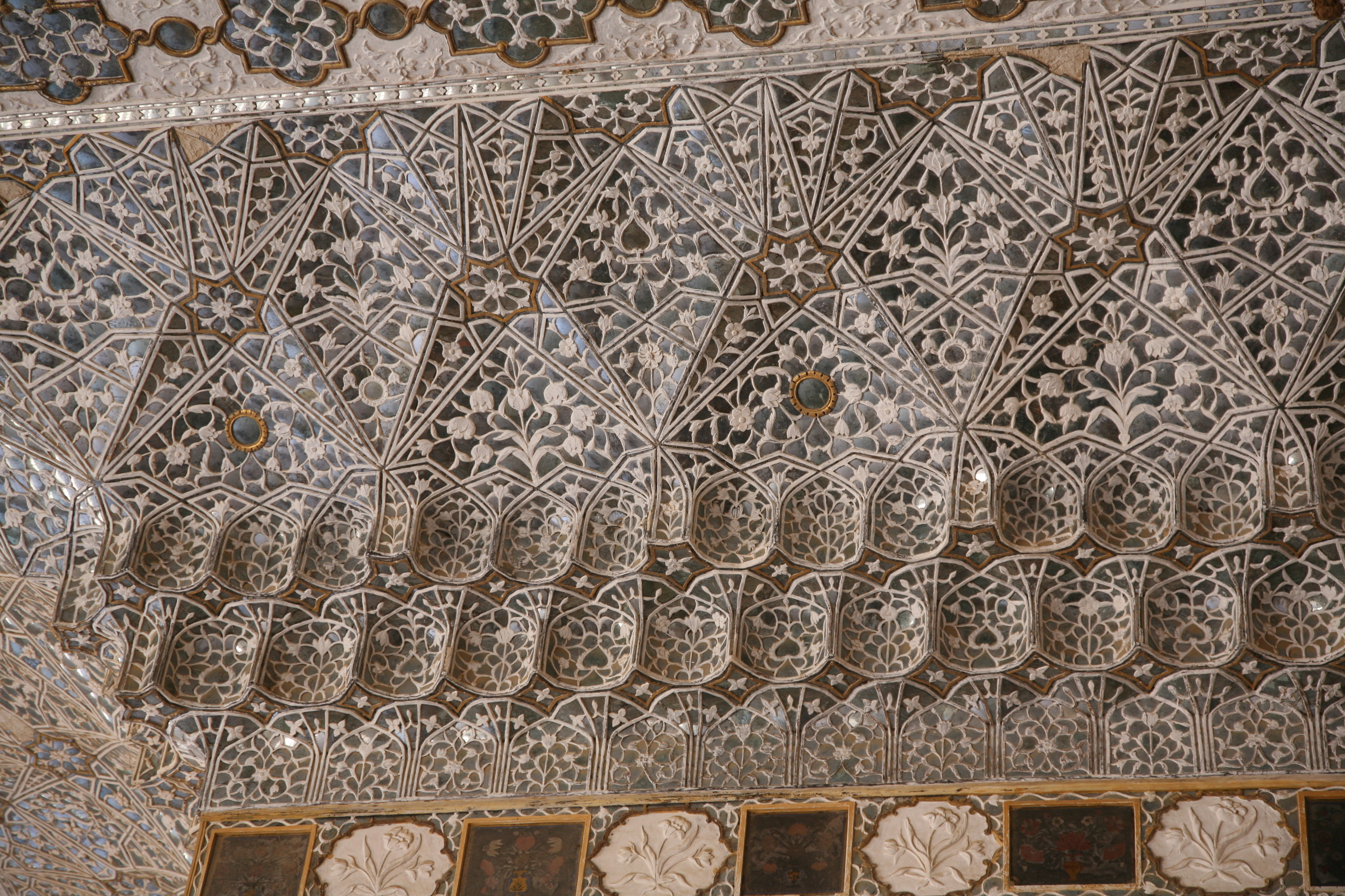 Amber Fort, near Jaipur. The marble palace Jai Mandir. Sheesh Mahal with mirrors in the roof.